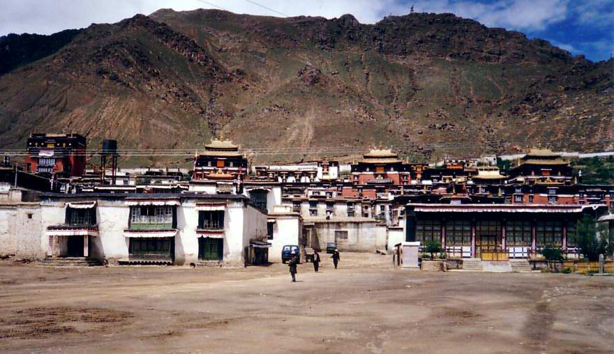 Tashilhunpo Monastery, Shigatse, 1993